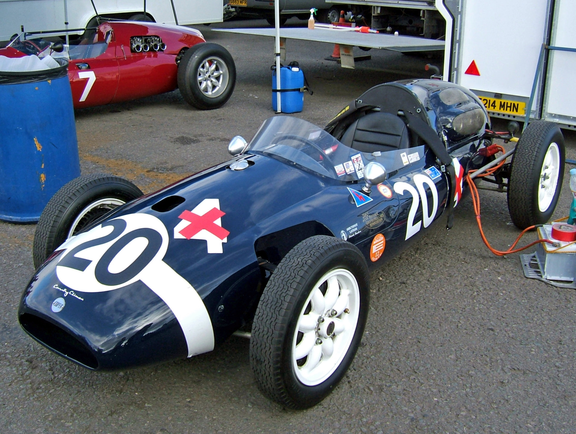 An ex-Rob Walker Racing Cooper T43, waiting in the paddock of the VSCC SeeRed race meeting, Donington Park.